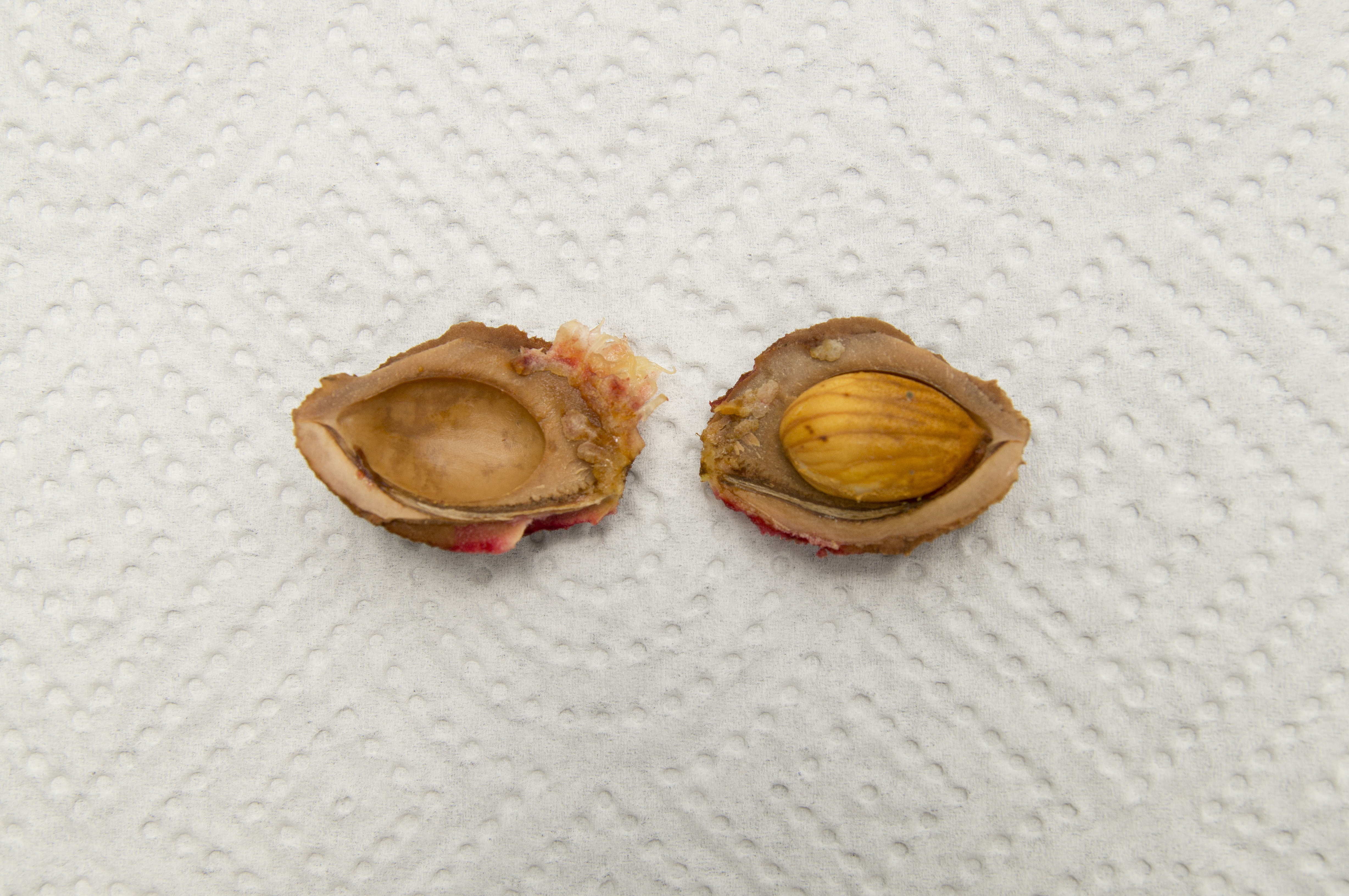 The inside of a peach (Prunus persica) pit.